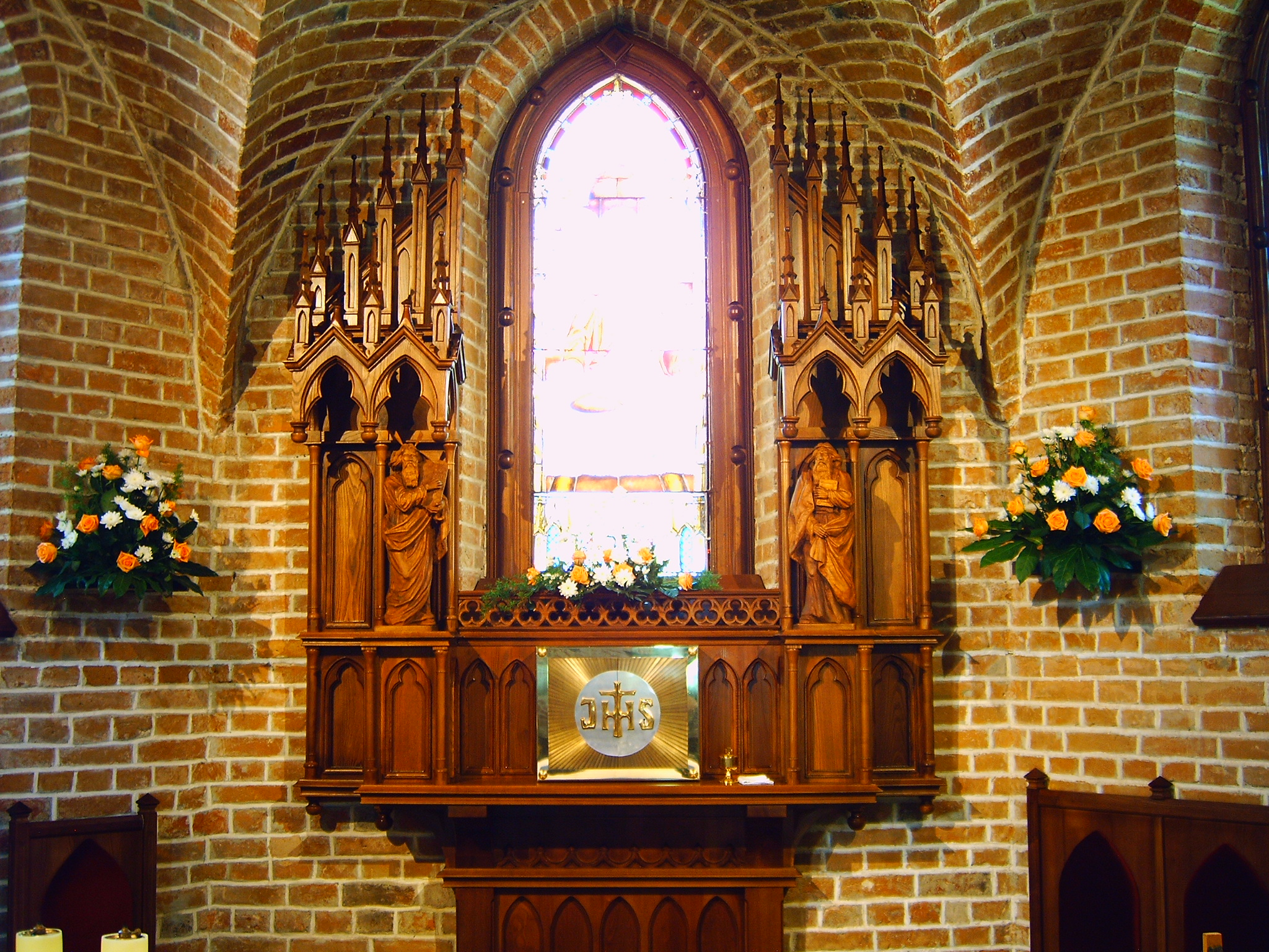 Poland, Mielno, church, Altar